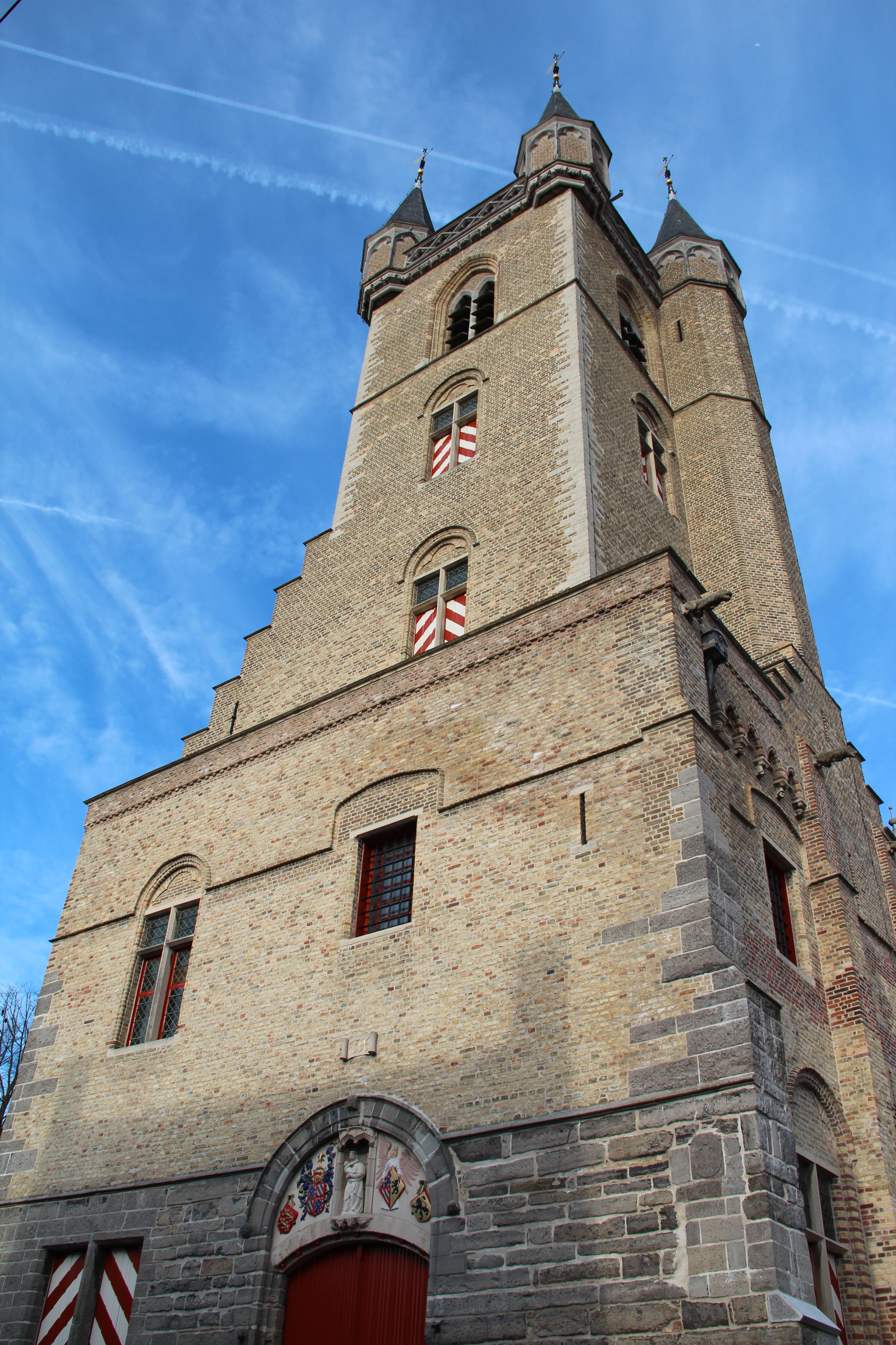 Sluis (Netherlands), the belfry (XIVth century).